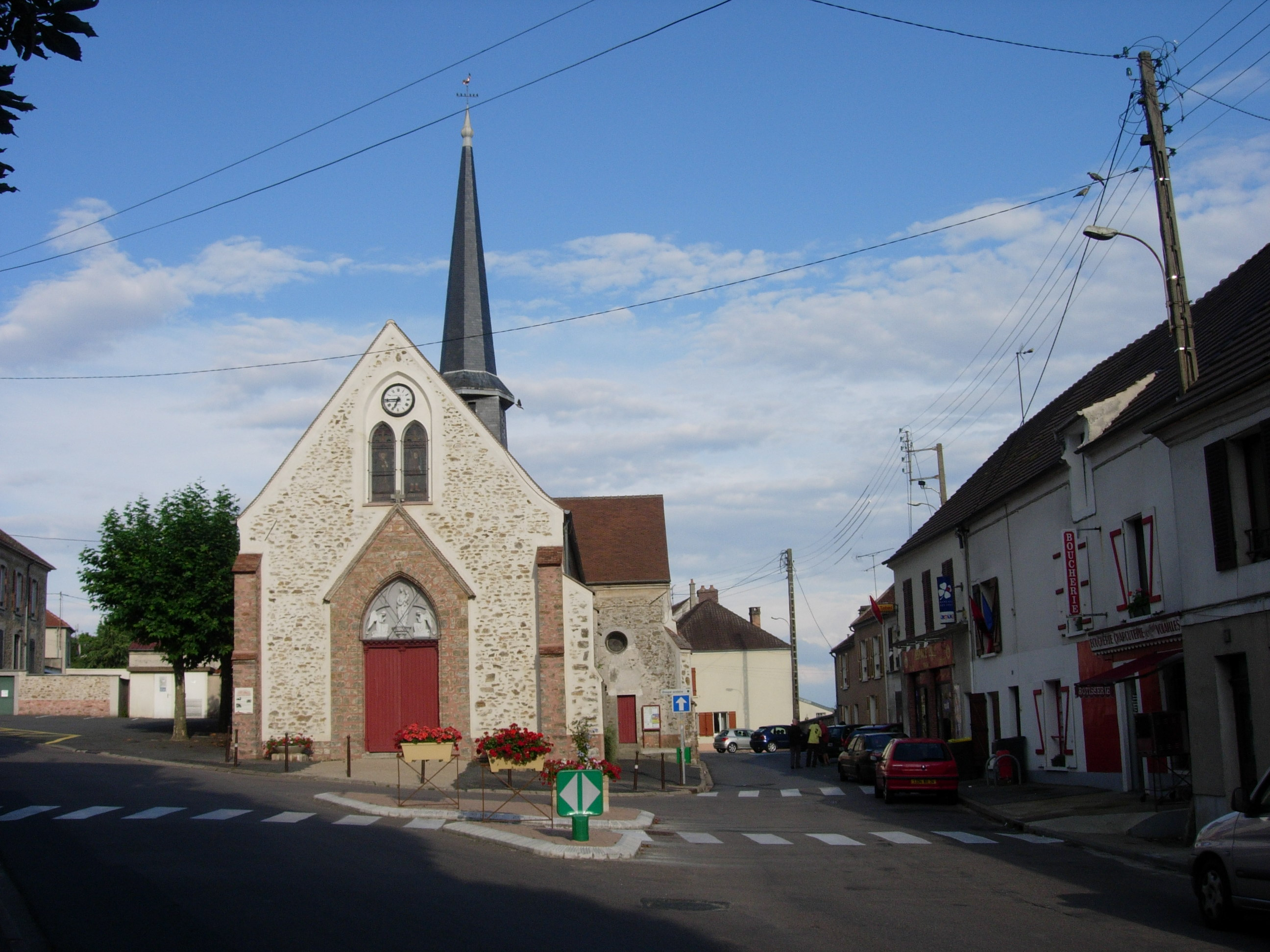 Saint Sulpice church, Boissy-le-Châtel (France)